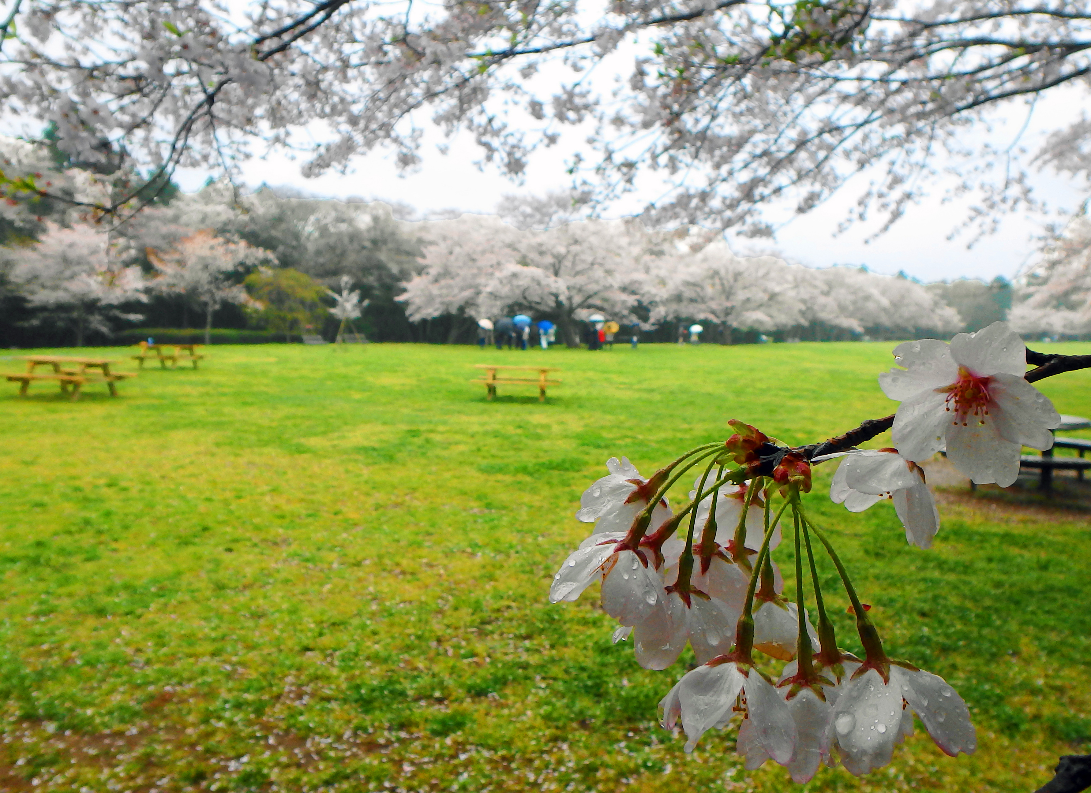 Izumi natural Park(Japan's Top 100 famous place of cherry trees),Chiba prefecture,Japan